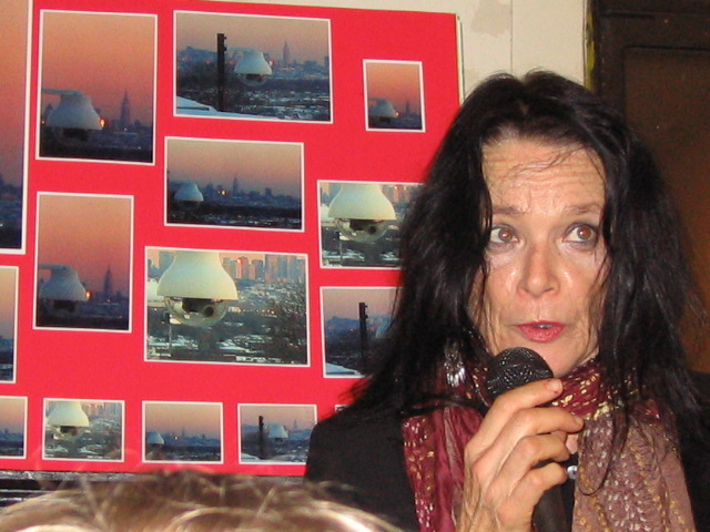 Anne Waldman live reading at " a gathering of the tribes gallery" on the topic of sousveillance art and the interlocking variable foot in performance art